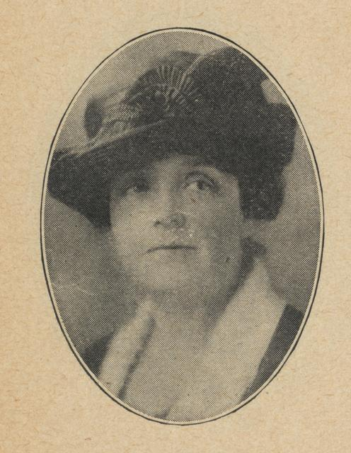 Minnesota State Rep. Mabeth Hurd Paige, in a photograph from the 1923-1924 Minnesota Legislative Manual (probably published in late 1922 or early 1923).